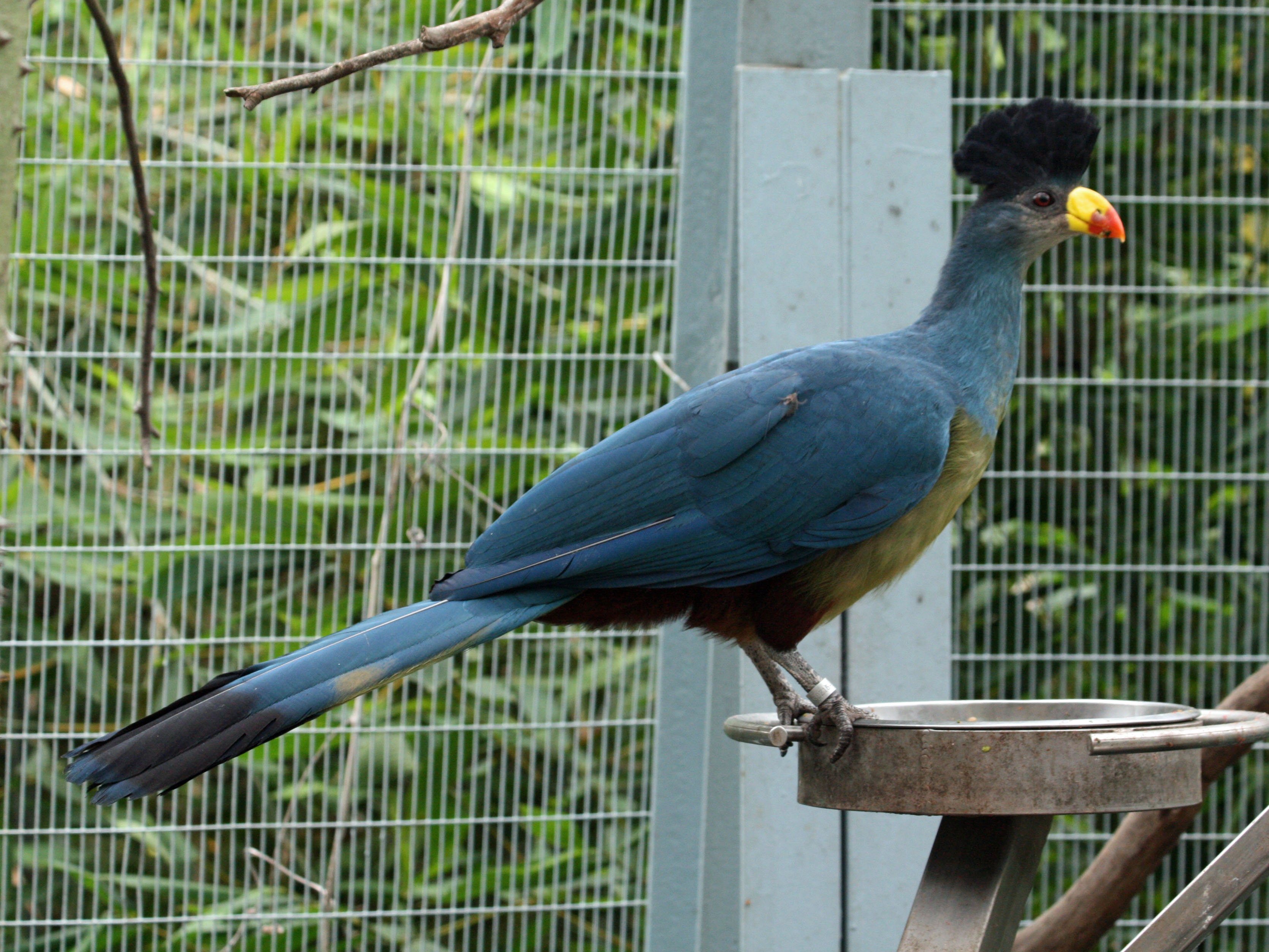 Great Blue Turaca (Corythaeola cristata) - San Diego Zoo